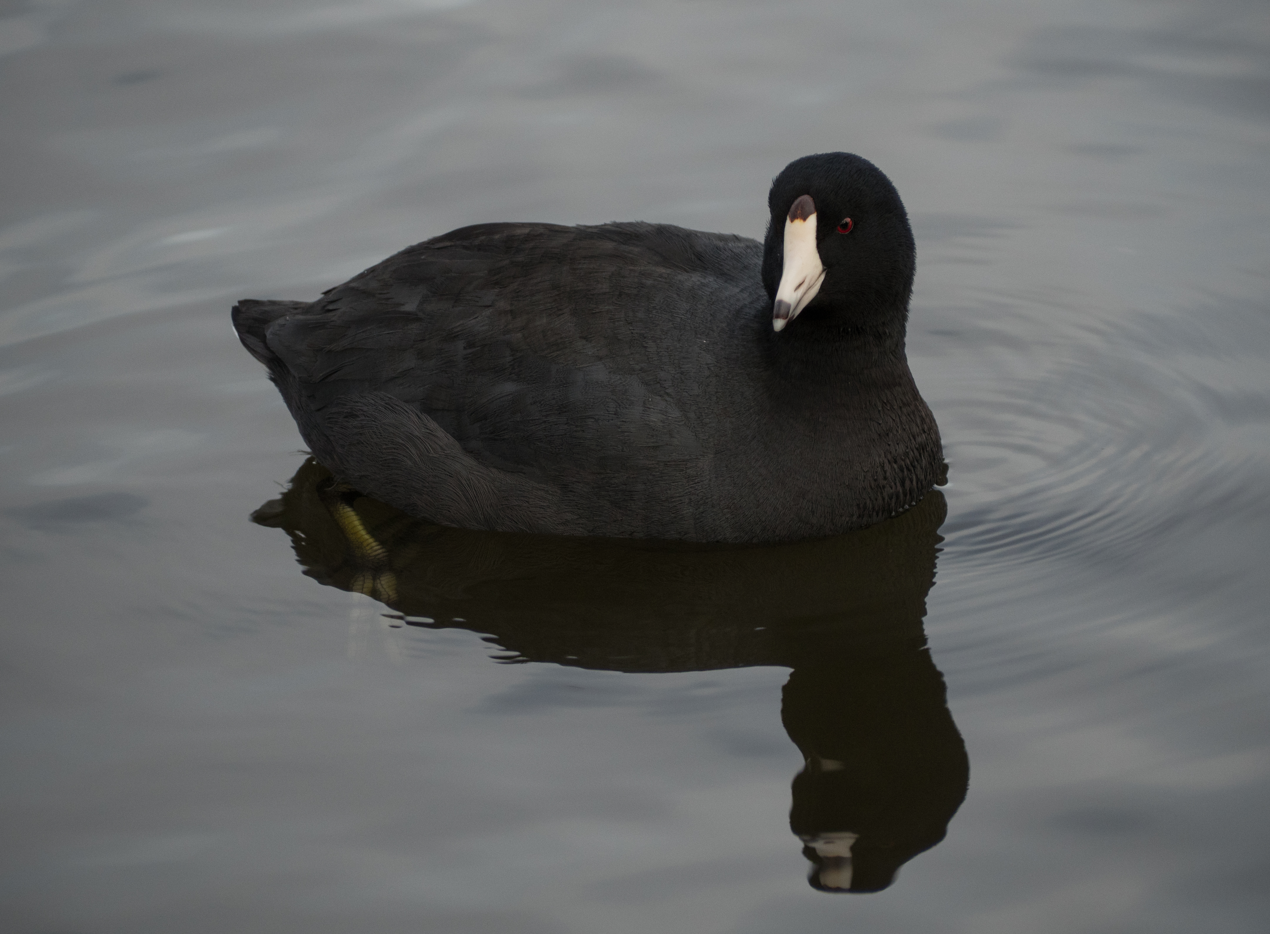 American coot (Fulica americana) in Prospect Park in January 2018